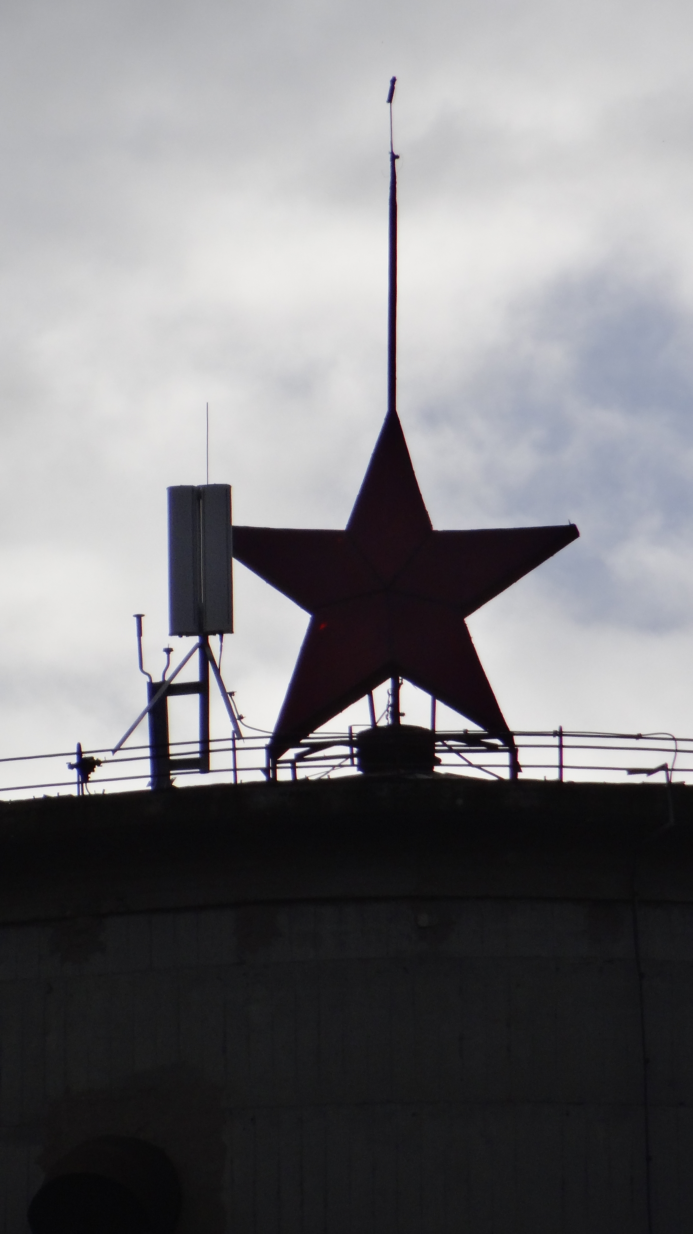 Urupsky District, Karachay-Cherkessia, Russia